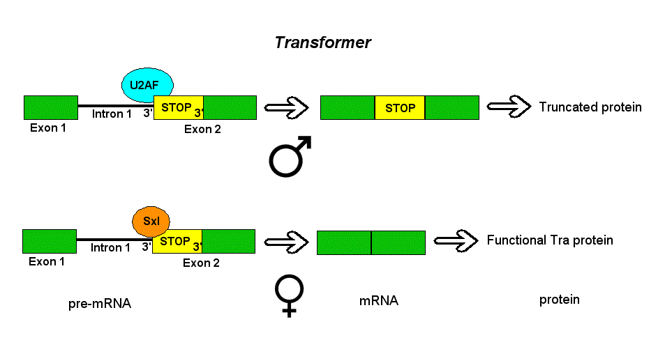 Alternative splicing of the Transformer gene transcript in Drosophila melanogaster. In males, the splicing factor U2AF binds to the 3' splice junction of intron 1, allowing the transcript to be spliced at this point. The mRNA then contains the entire exon 2, including an early stop codon. The protein encoded is truncated and non-functional. In females, the master sex determination factor Sex Lethal (Sxl) binds at the 3' splice junction, competing with U2AF. Splicing then occurs at an alternative 3' splice junction within exon 2. The mRNA that results encodes a functional Tra protein.